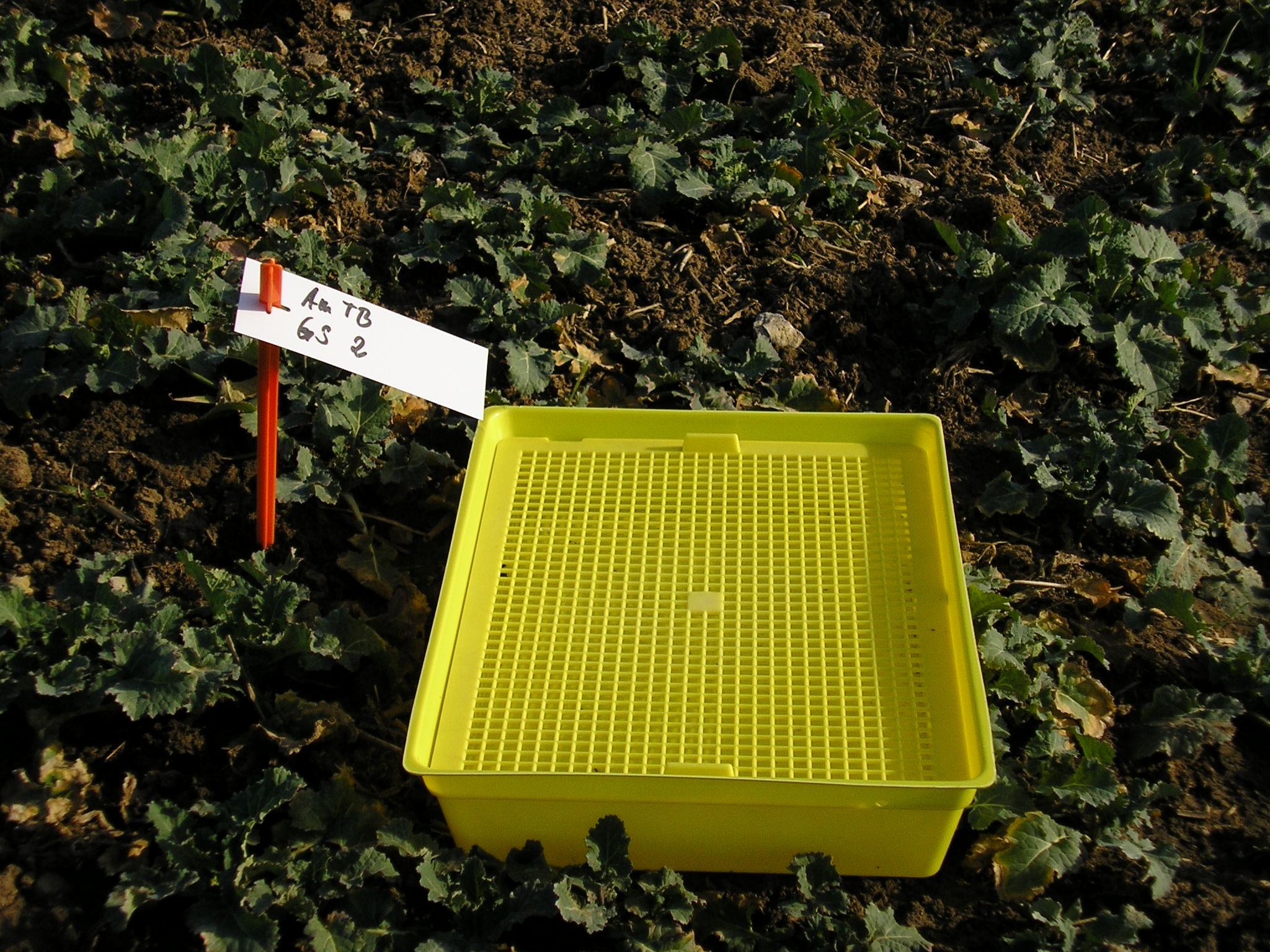 Yellow water trap (also known as pan trap) for catching insects in agricultural crops